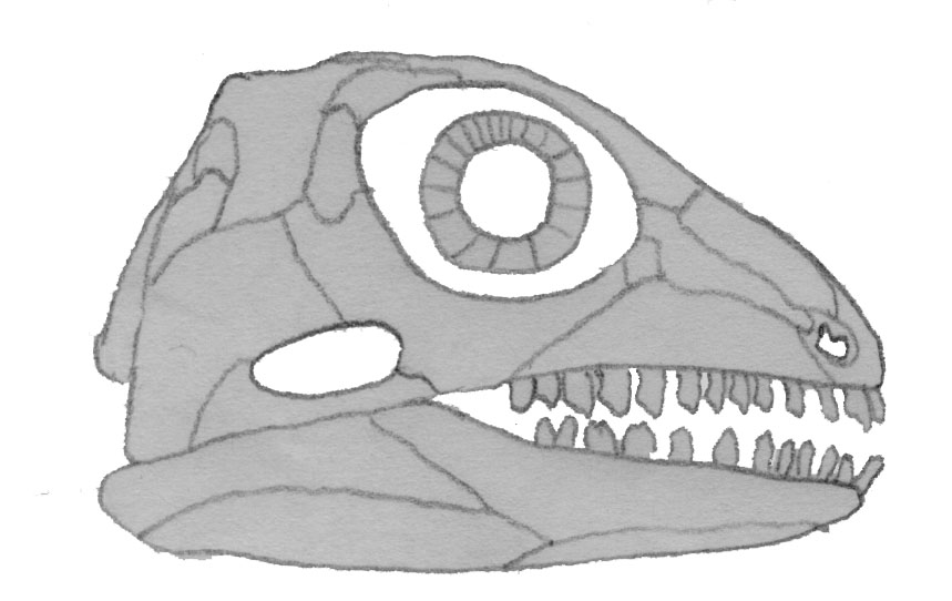 Skull of Bolosaurus, an anapsid reptile